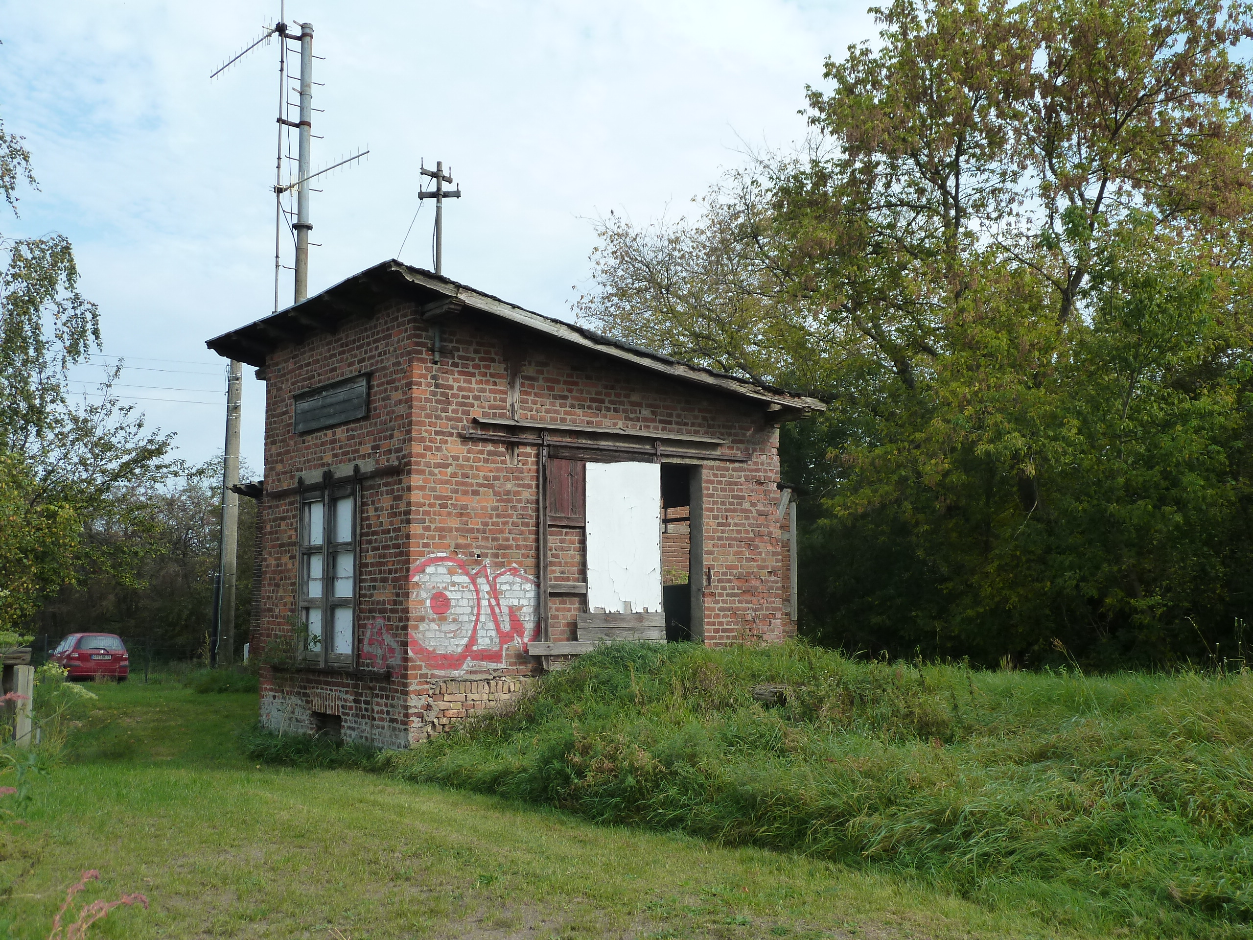 Former Betzin-Karwesee railway station